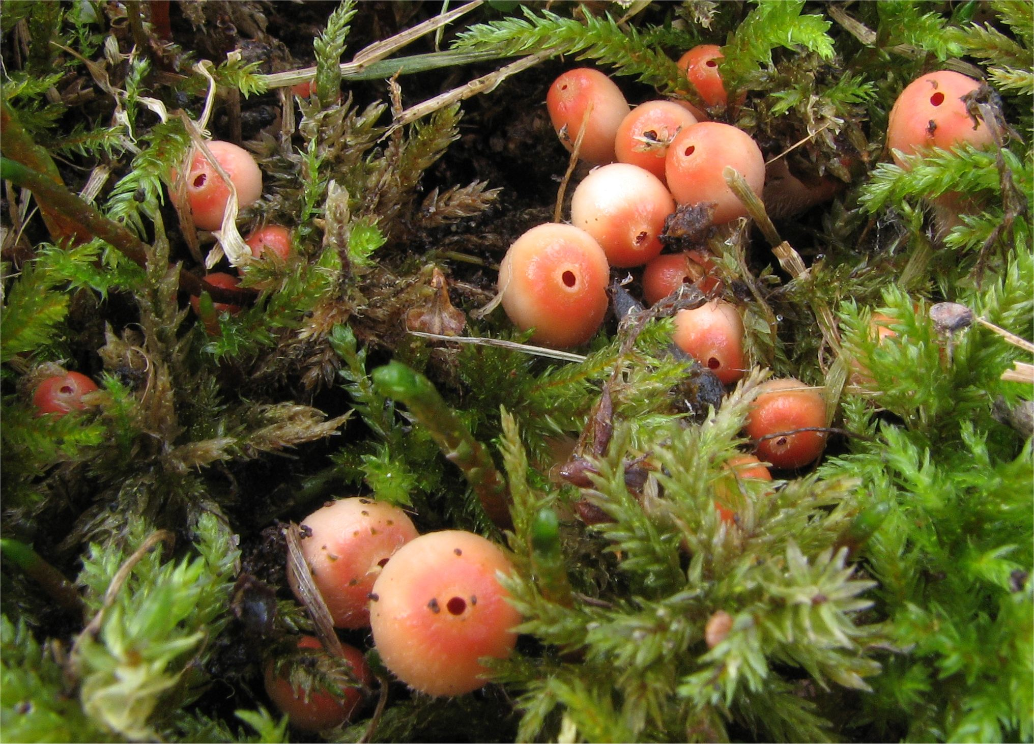 Microstoma protractum (Fries) Kanouse Image location: Hörnefors, Västerbotten, Sweden Recognized by sight: Found today at the same spot as obs 45738 For more information about this, see the observation page at Mushroom Observer.